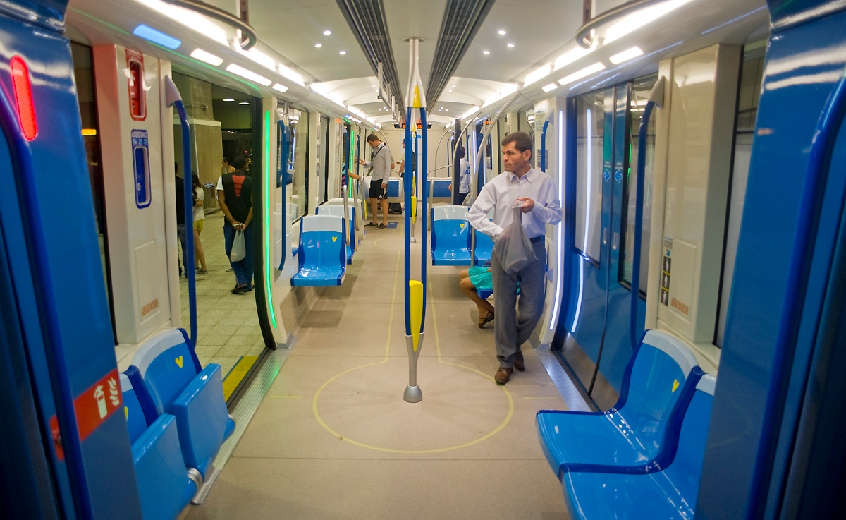 Interior view of Montréal MPM-10 subway car full-size mockup.